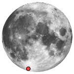 Description: Location of the Clavius crater on the Moon. Source: This is a modified version of the photo obtained from the NASA Planetary Photojournal. It was modified by RJHall. Width: 150 pixels Height: 150 pixels